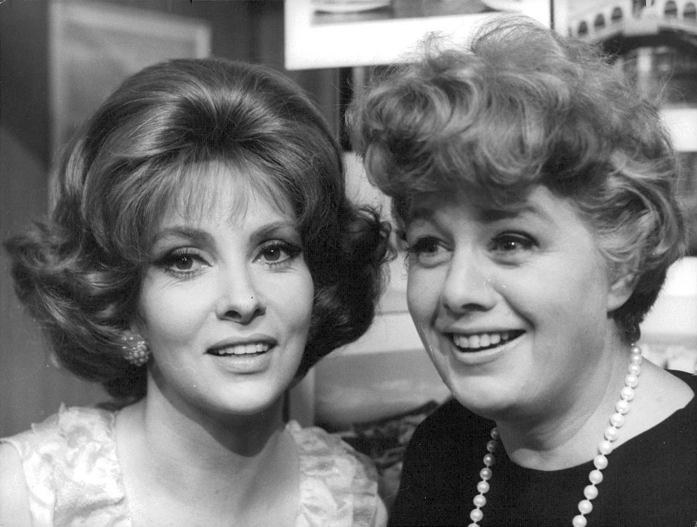 "Good Evning, Mrs. Campbell".It is the new film that Gina Lollobrigida is filming now in Rome, co-starring Shelley Winters, Philippe Leroy, Peter Lawford and others. Gina Lollobrigida is, in the film, a woman that during the Second World War gave hospitality, during a week, and alternately, a leutenant, a sergeant and a corporal. The woman was remained pregnant.. She does not know who is the father of her daughter. To protect her reputation she told the people that the father of her dauther was a "certain" Captain Campbell, dead in the war. When Gina's dauther turn 20, her three 'fathers' come to the country to know their dauther. After humoristic situations the film will end chreerfully.